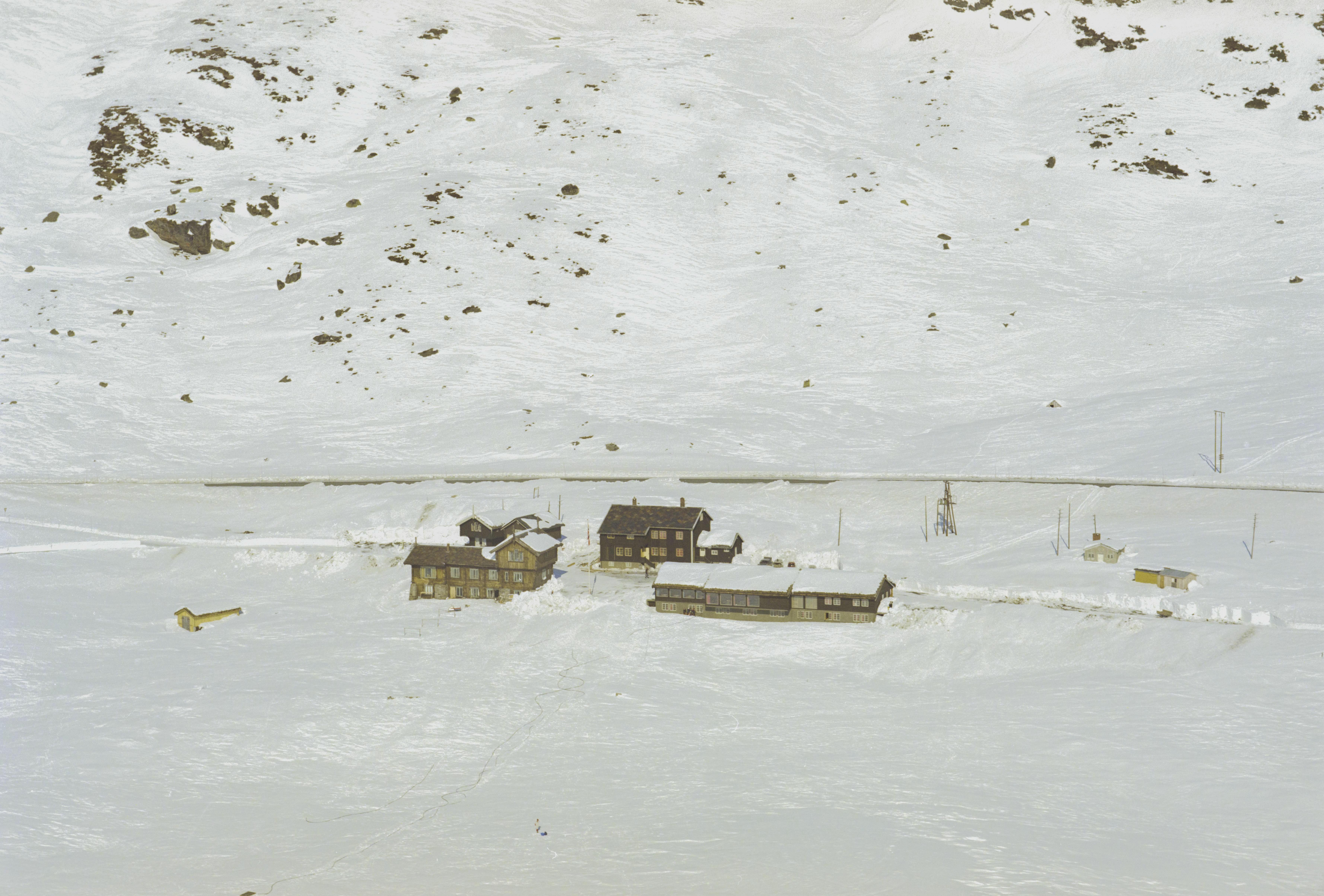 Flyfoto av Haukeliseter tatt av Widerøe flyveselskap